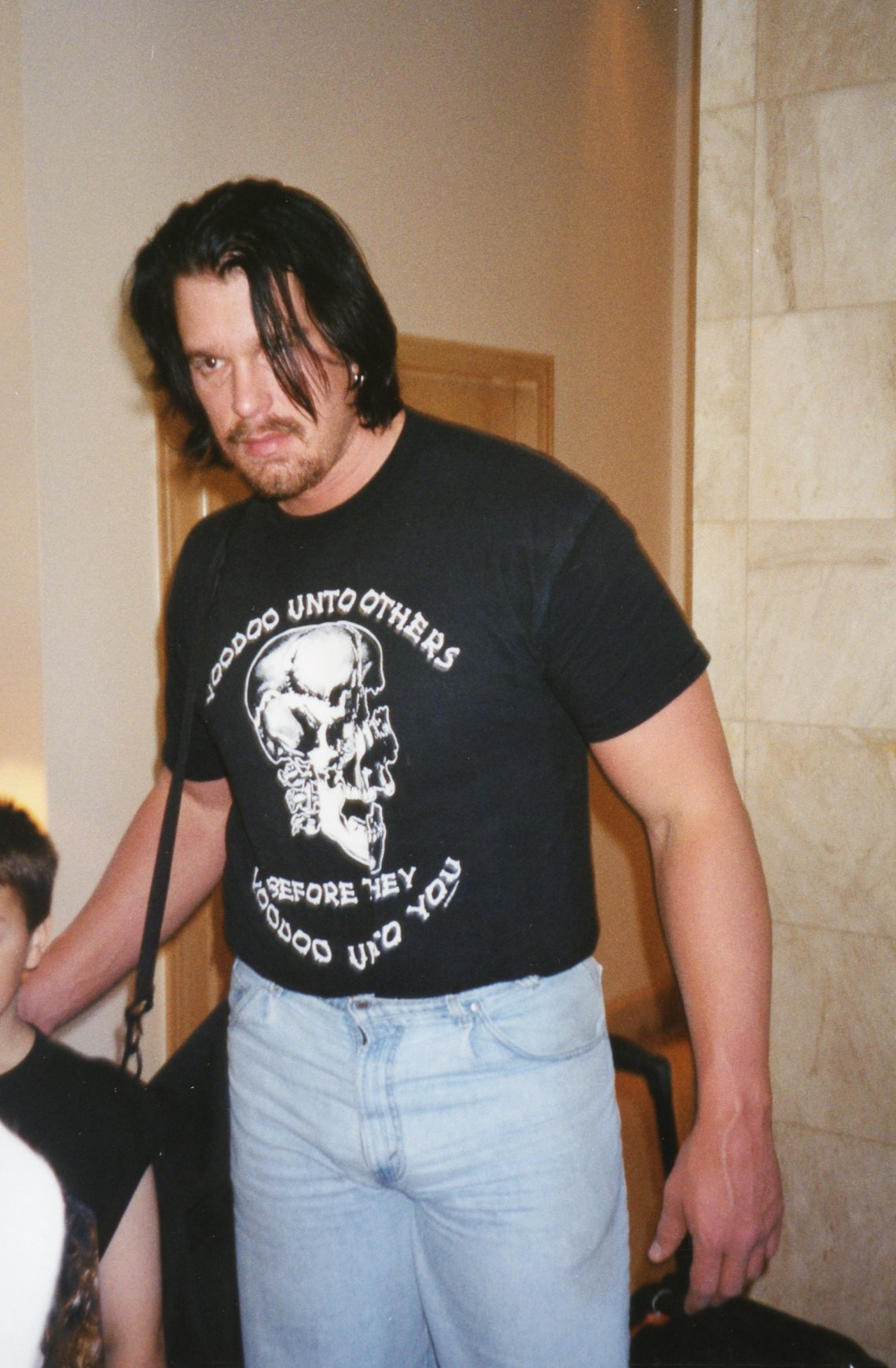 John Layfield as wrestling character Bradshaw